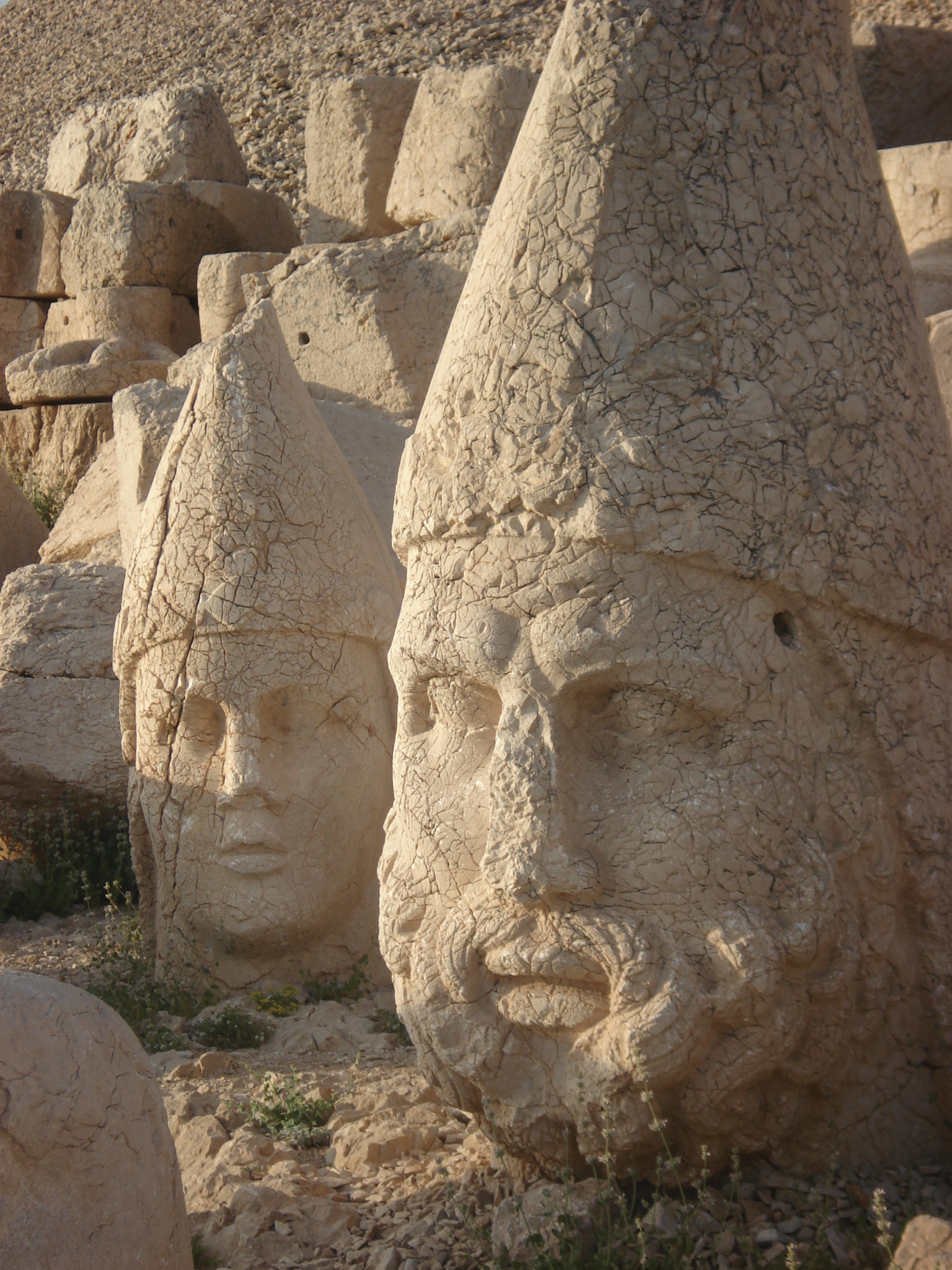 Heads of statues on summit of Nemrut, Turkey